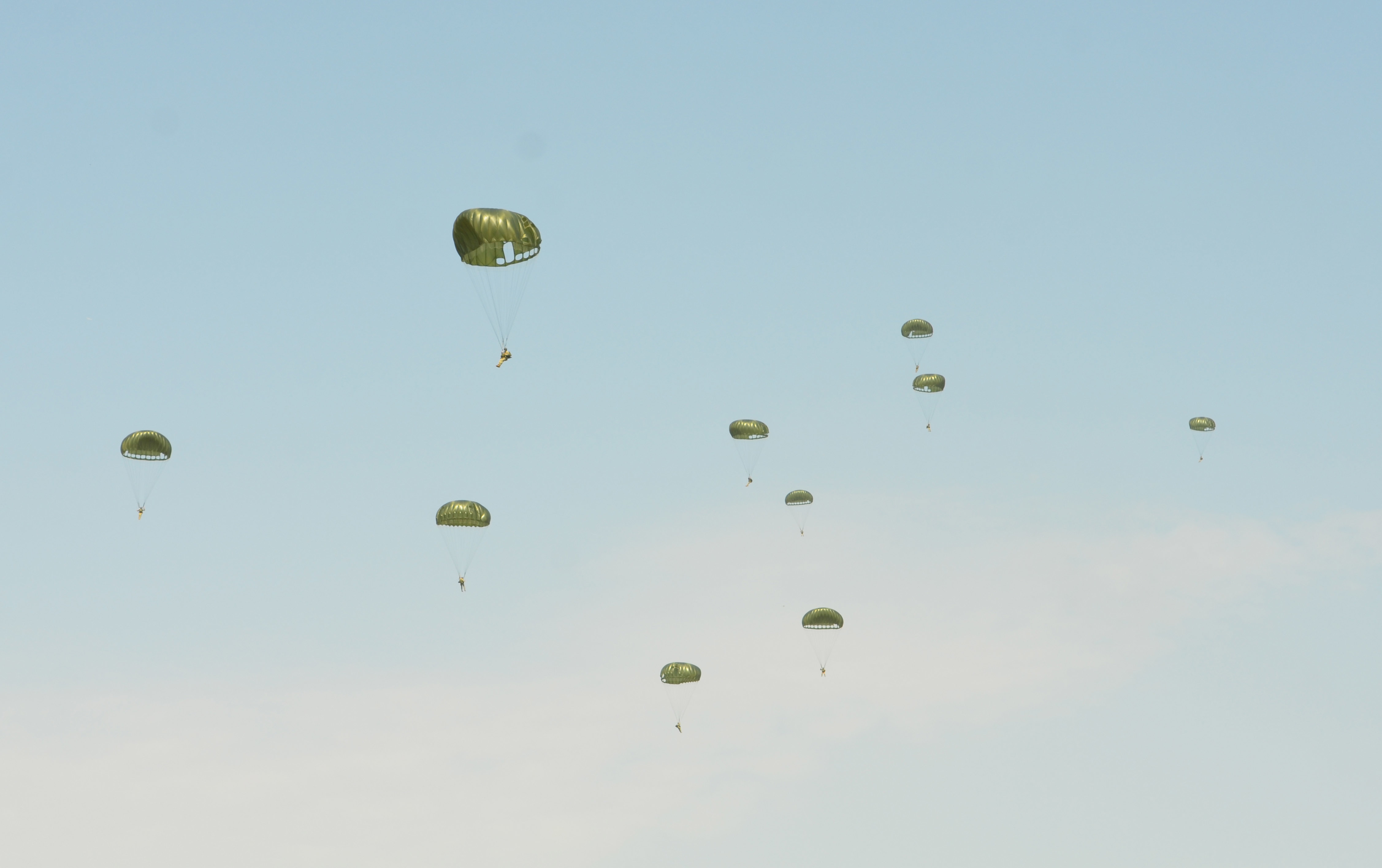 VAZIANI TRAINING AREA, Georgia — Soldiers from the Special Operations Force, Georgia, exit the aircraft with MC1-1D parachutes at the drop zone, Vaziani Training Area, Georgia, Aug. 4, 2017. Georgian Soldiers conduct an airborne insertion with Soldiers of Hotel company, 1st Battalion, 121st (Airborne) Long Range Surveillance, 48th Infantry Brigade Combat Team, Georgia Army National Guard. The unit is presently in the country of Georgia to participate in Exercise Noble Partner. Noble Partner is a multinational, U.S. Army Europe-led exercise conducting home station training for the Georgian light infantry company designated for the NATO Response Force. (U.S. Army photo by Sgt. Shiloh Capers)